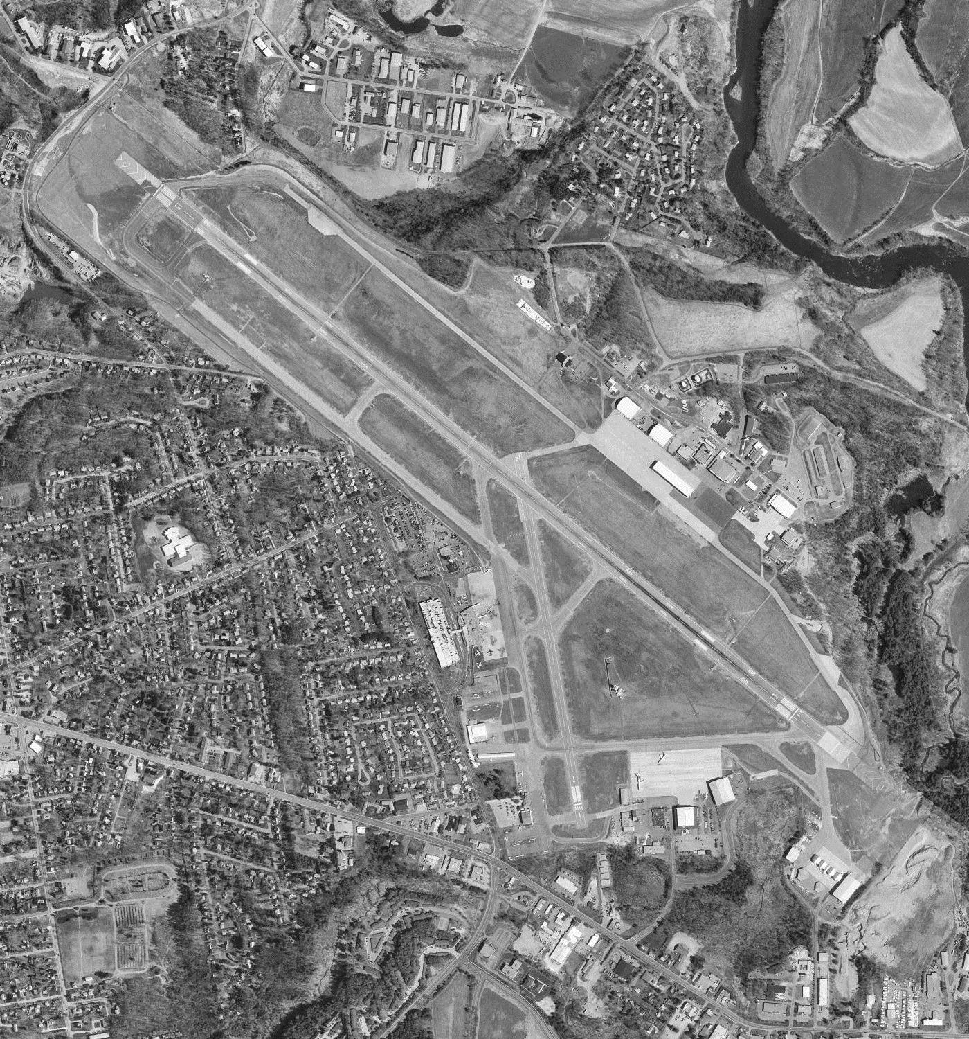 USGS digital orthophoto of Burlington International Airport in Vermont, United States.